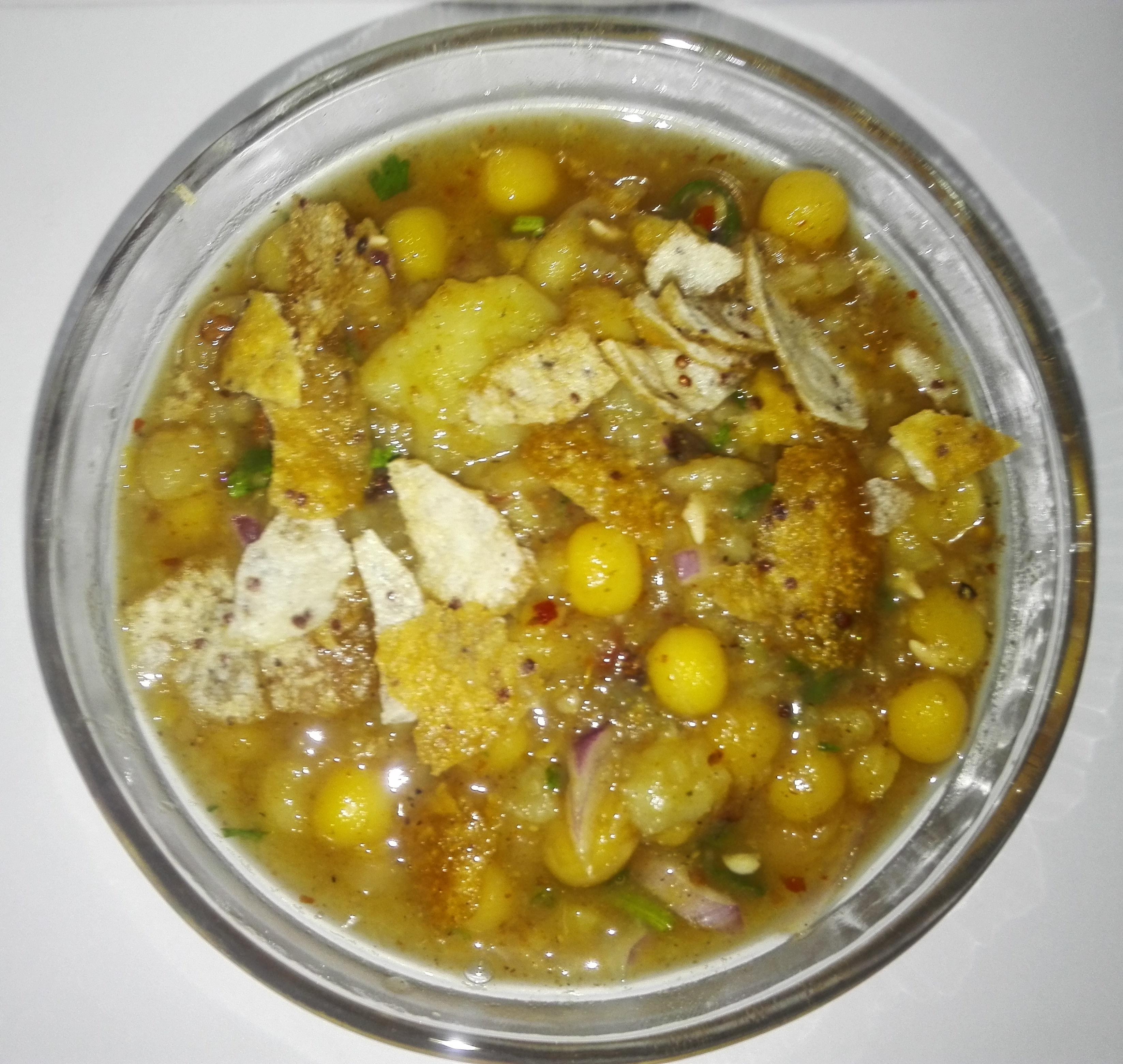 chotpoti is a dish of Bengali cuisine mainly from Bangladesh and west Bengal.